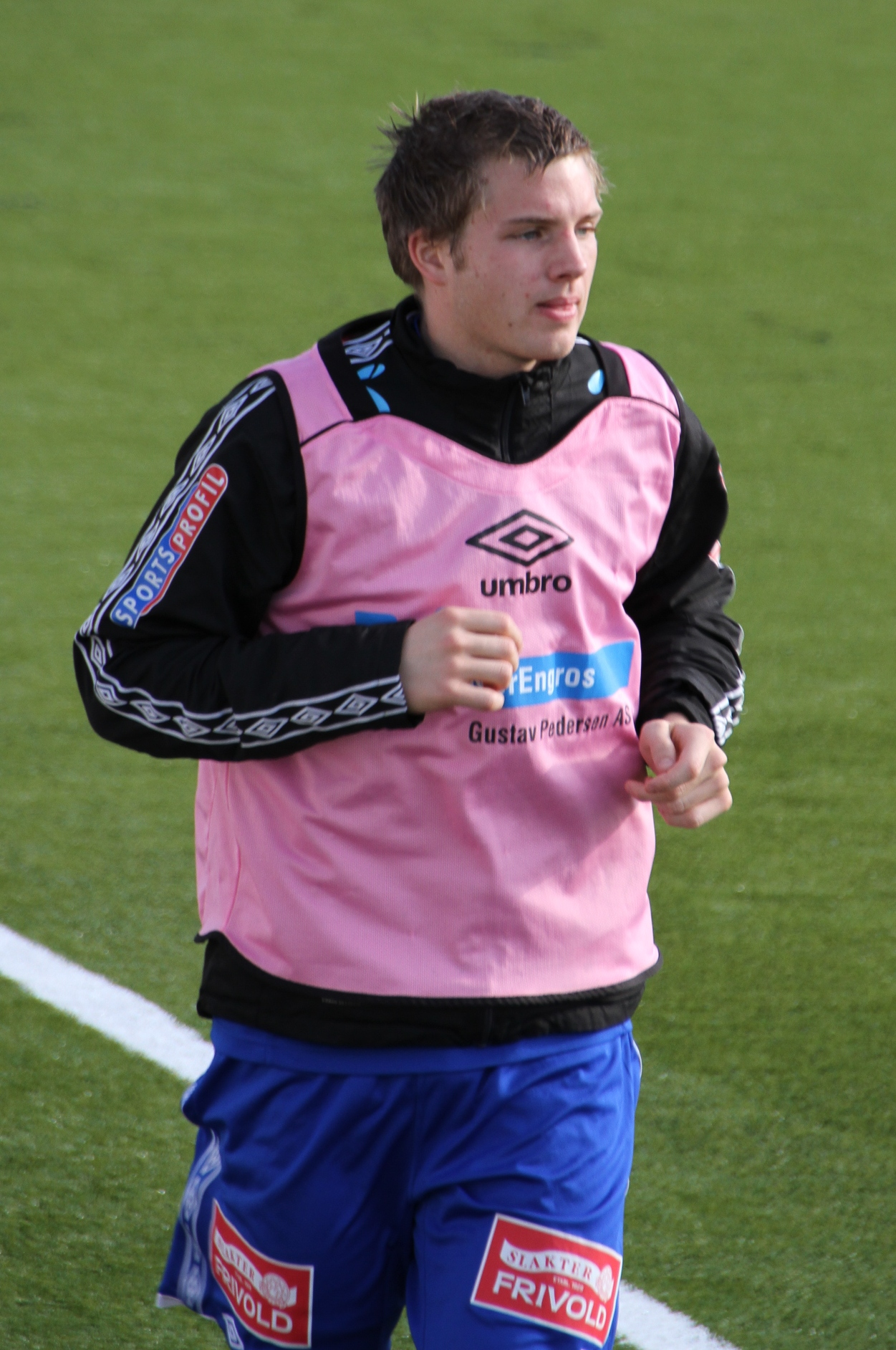 IK Start (Norway) player preparing for match against Mjöndalen. May 20, 2012.